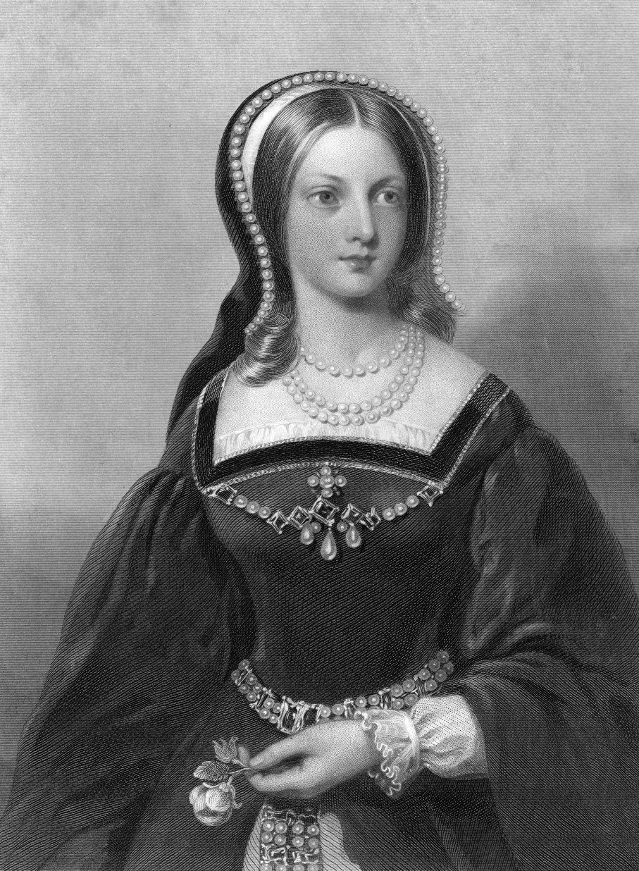 A 1753 engraving of Lady Jane Grey, queen of England from 10th July 1553 to 19th July 1553.